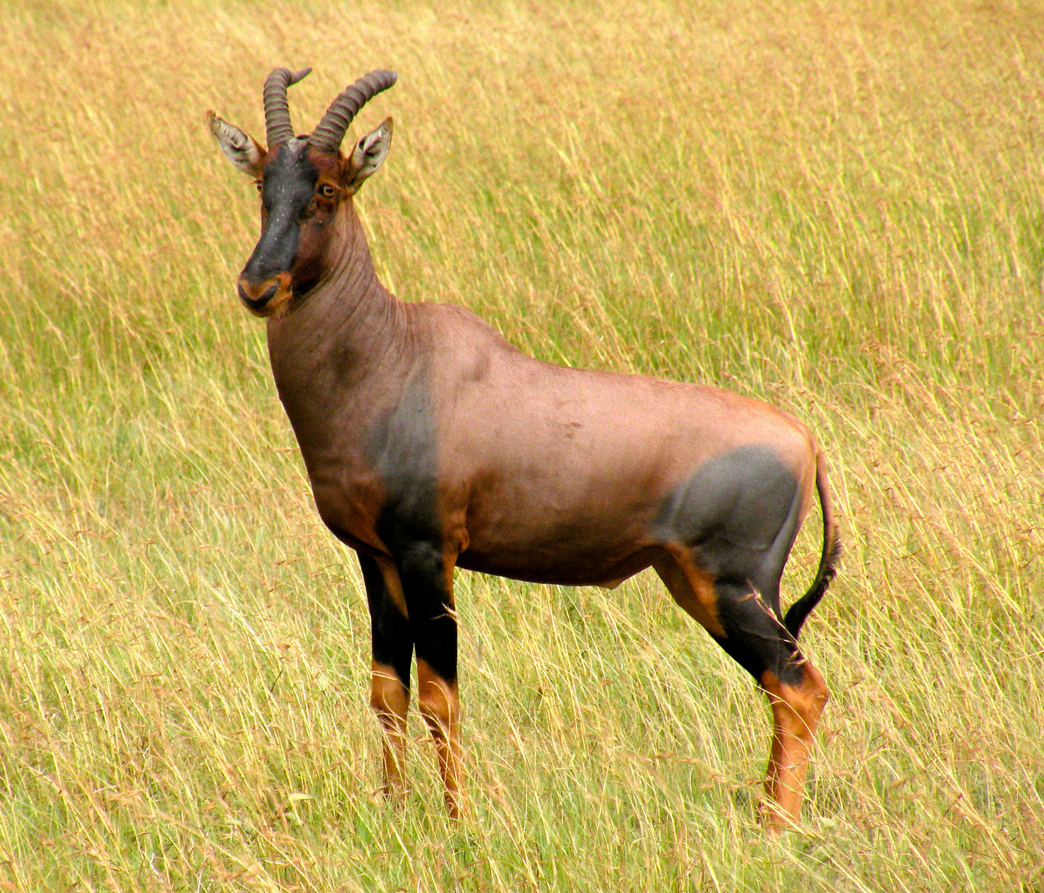 Photographed by John R Whitaker at Serengeti National Park, Tanzania